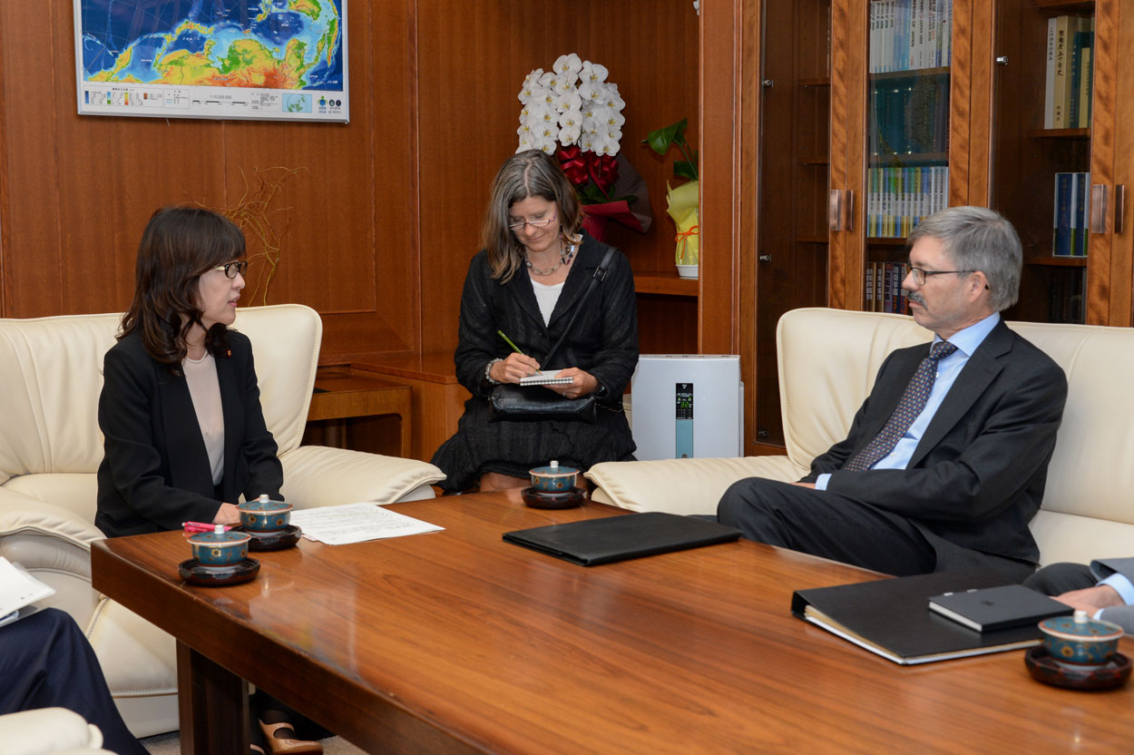 Courtesy Call by His Excellency Dr. Hans Carl VON WERTERN, Ambassador Extraordinary and Plenipotentiary of Germany to Japan (October 27, 2016 MOD)